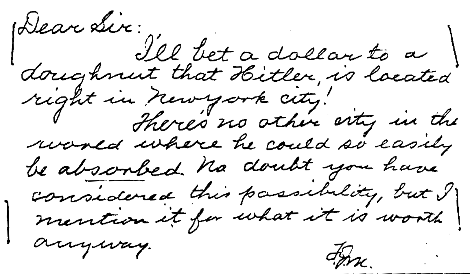 Memo about Hitler's possible survival of WWII apparently initialized by JFK